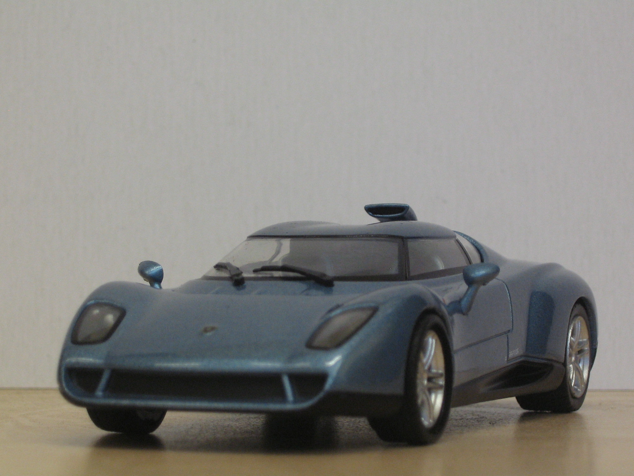 Original picure captured with photocamera.